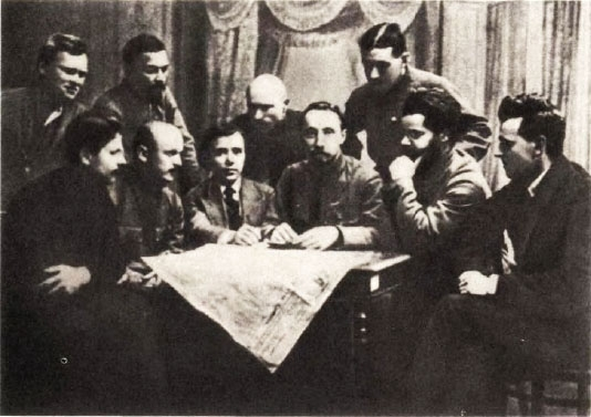 Military Organization of the Bolshevik Party. Seated from left to right are: K. N. Orlov, K. A. Mekhonoshin, V. I. Nevsky, N. I. Podvoisky, P. V. Dashkevich, F. F. Raskolnikov. Standing from left to right are: B. I. Zanko, M. S. Kedrov, V. L. Paniushkin, and A. I. Tarasov-Rodionov.